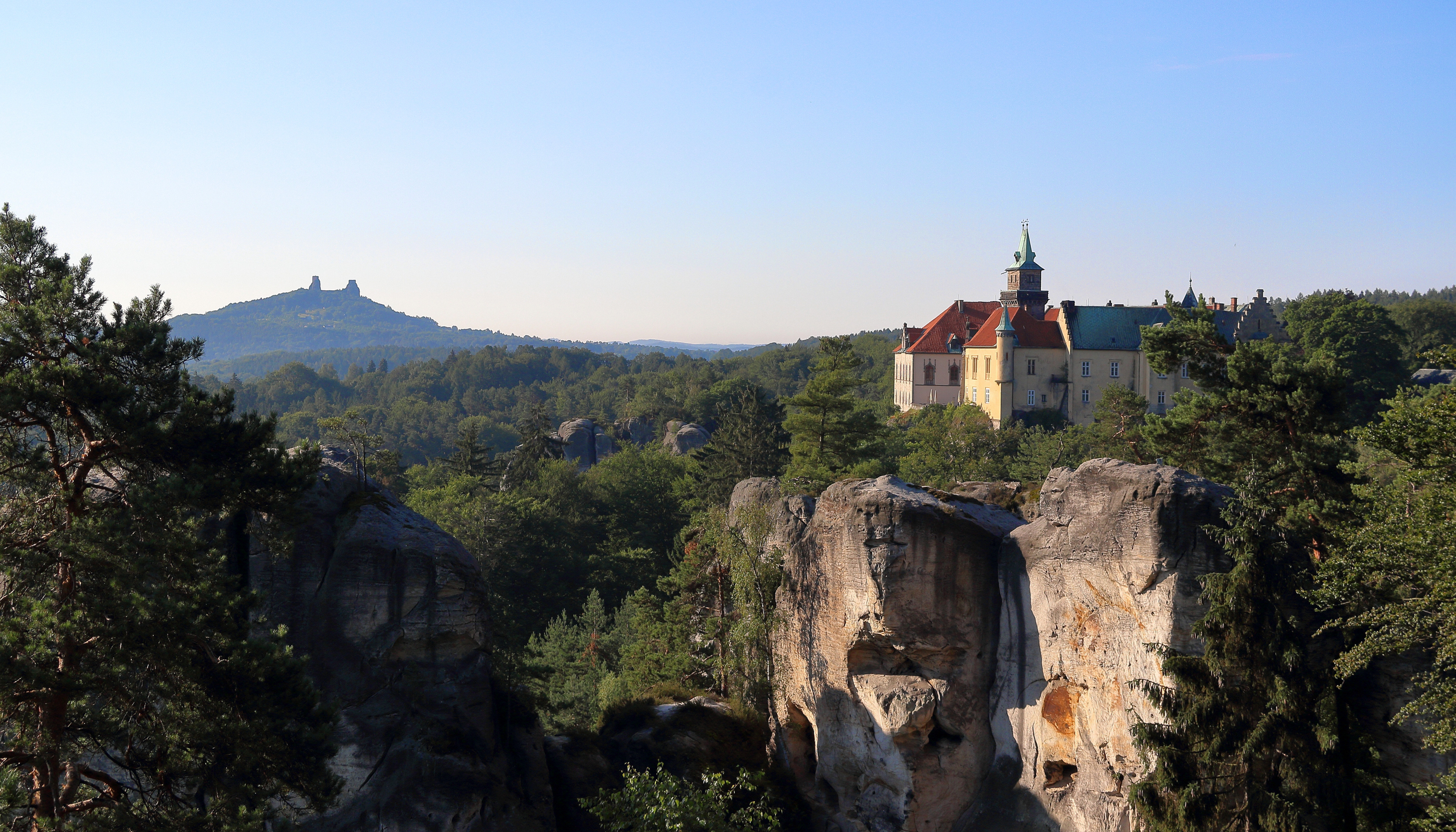 Castle Hruba Skala and ruin Trosky